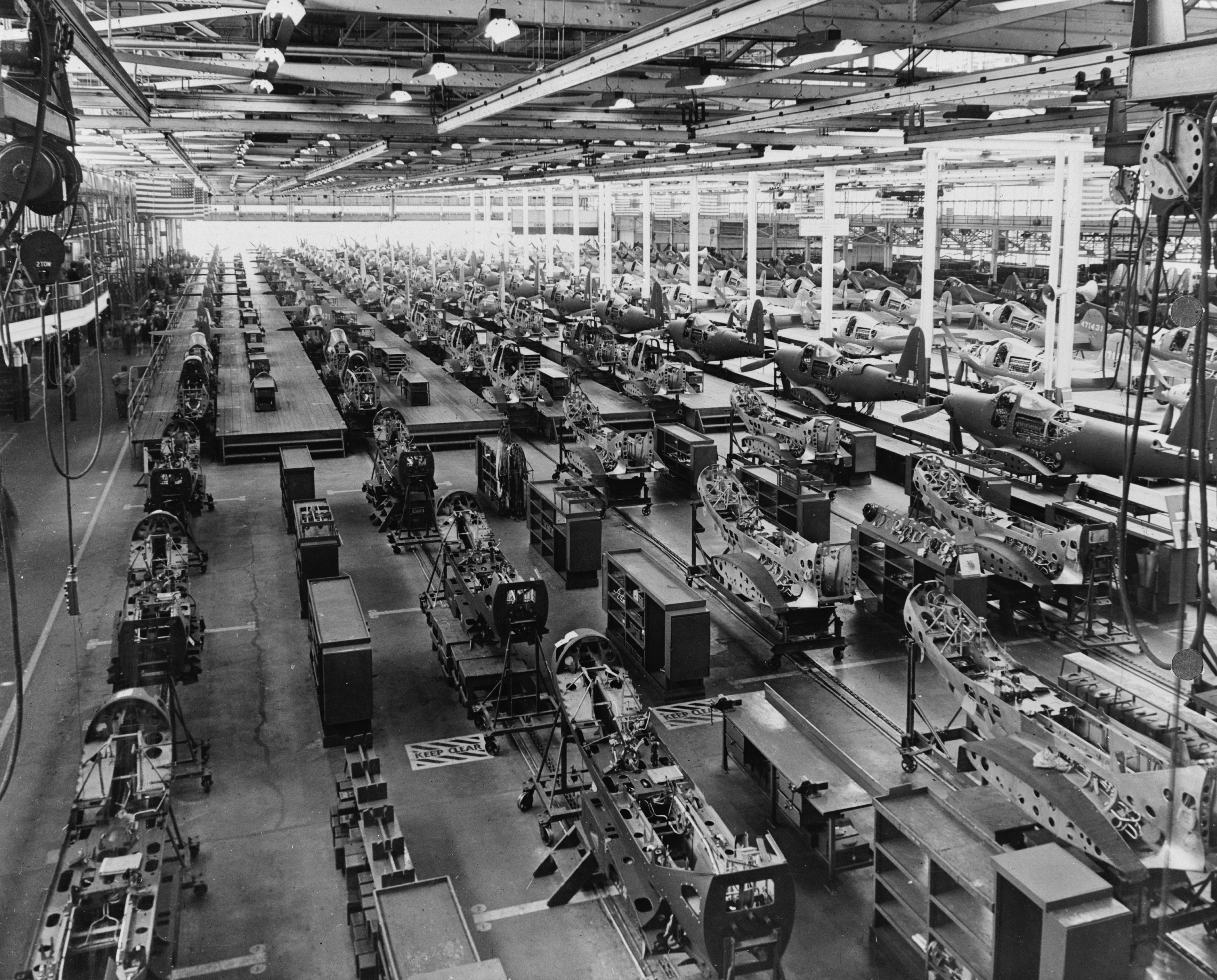 The assembly plant of the Bell Aircraft Corporation at Wheatfield, New York (directly East of Niagara Falls, USA). The aircraft in the photo are Bell P-39Q-30-BE Airacobra fighters (USAAF serials 44-71105/44-71504), and Bell P-63A-8-BE Kingcobra fighters (USAAF serials 42-69211/42-69410). While externally very similar, the P-39 had a smaller and more rounded tail section and a three-bladed propeller. The two lines at left are P-39Qs, followed by three lines of P-63As. Then are two lines of almost completed P-39Qs (serials clearly visible), and a last line of P-63As. Note the absence of any workers and tools.